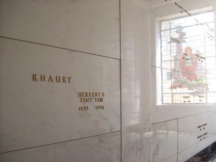 Lakewood Cemetery Mausoleum, Minneapolis - Tiny Tim's final resting place